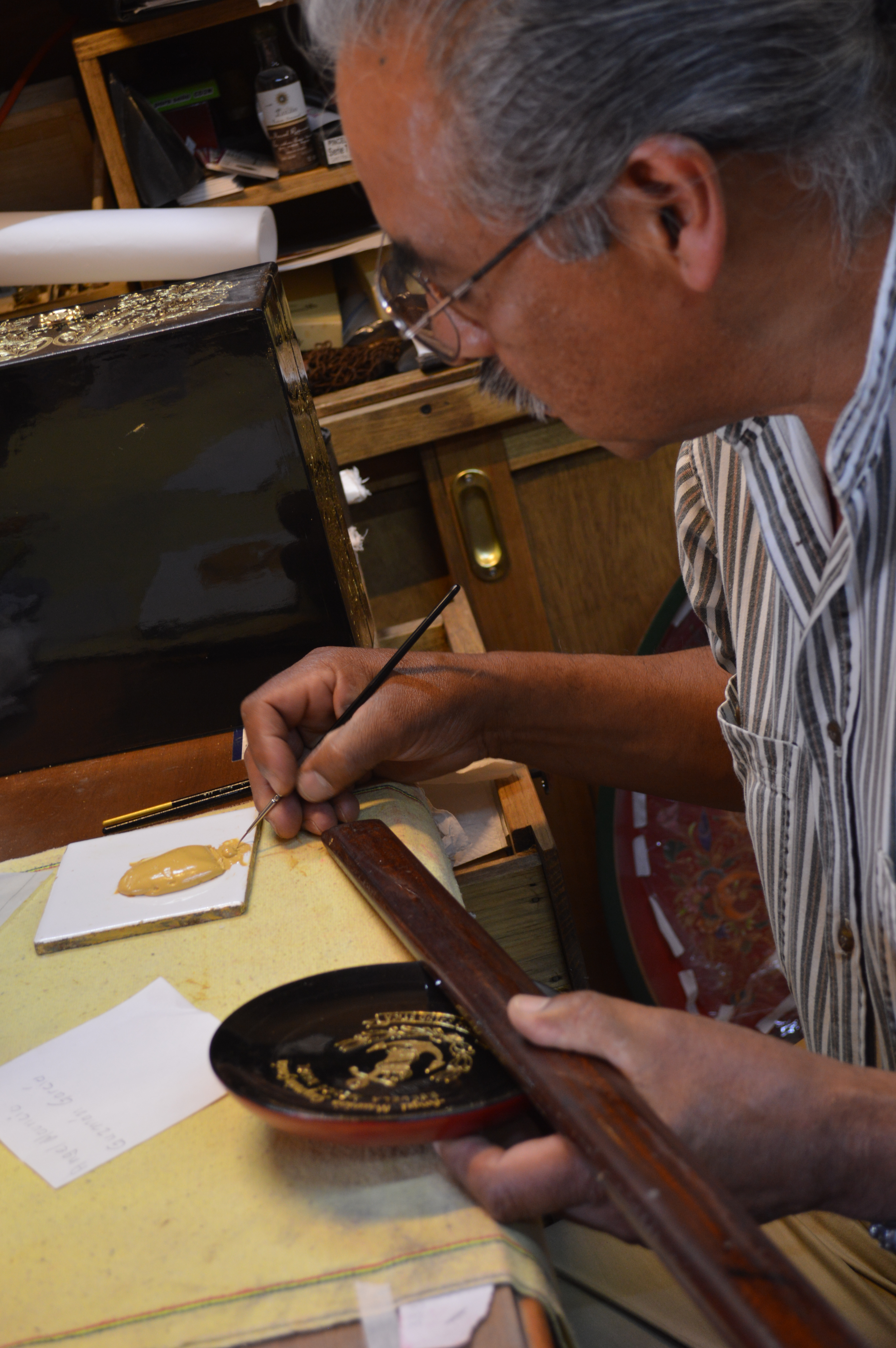 Mario Gaspar working at the family workshop at the Casa de las 11 Patios in Patzcuaro, Michoacan